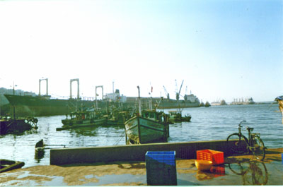 Part of the harbour of Vasco da Gama, Goa Taken by me on 2-May-2005